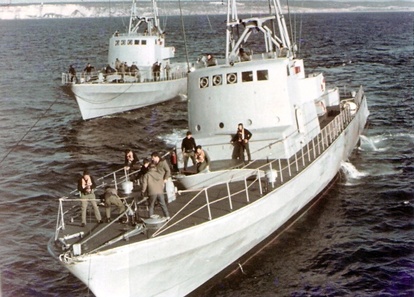 Israel Defense Forces